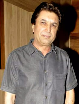 Mangal Dhillon at Press conference of TV serial 'Buniyaad'